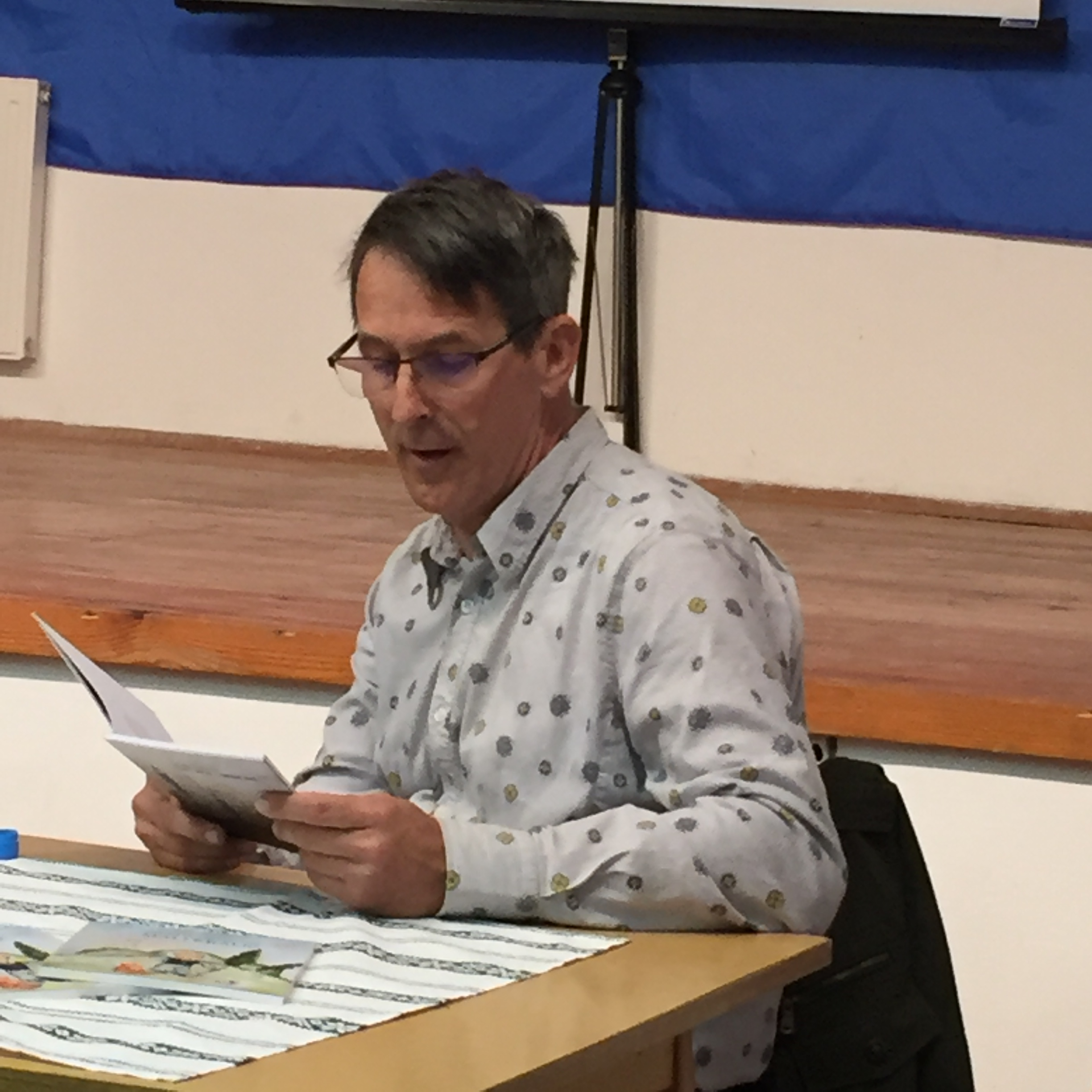 Branko Pintarič (1967-) Prekmurian Slovene writer, poet, editor, amateur actor in Kétvölgy (2019)